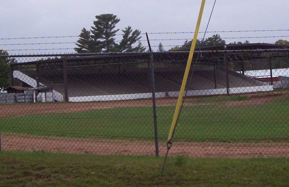 The Waupaca County, Wisconsin fairgrounds in Weyauwega, Wisconsin.